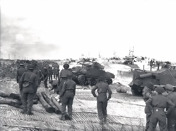 1st Hussars tanks and men of the 7th Infantry Brigade landing on a crowded beach at Courseulles-sur-Mer - June 6, 1944